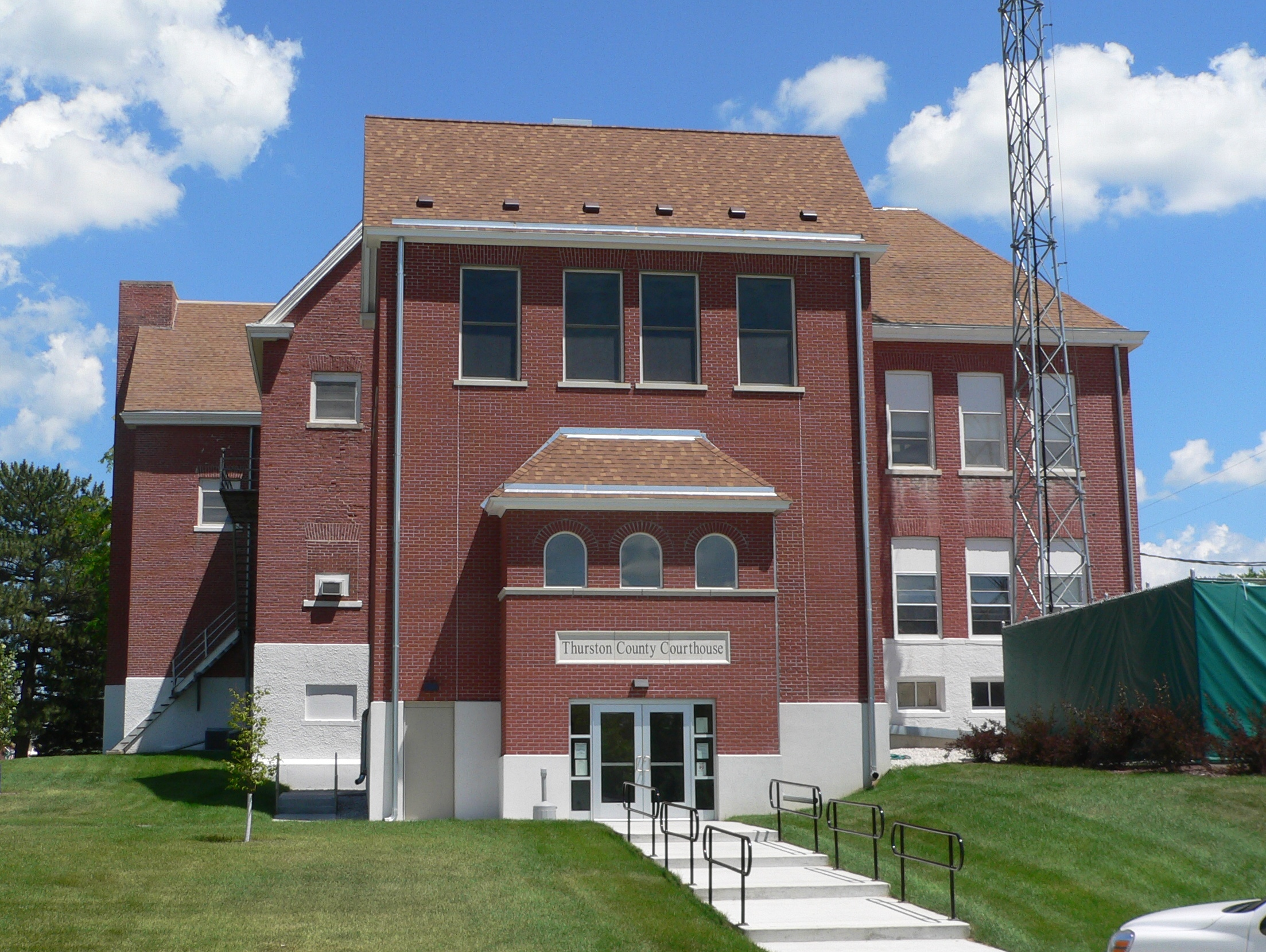 Thurston County Courthouse in Pender, Nebraska; seen from the west. The original building, in the background, was constructed in 1895; the portion in the foreground is apparently a more recent addition. The building is listed in the National Register of Historic Places.